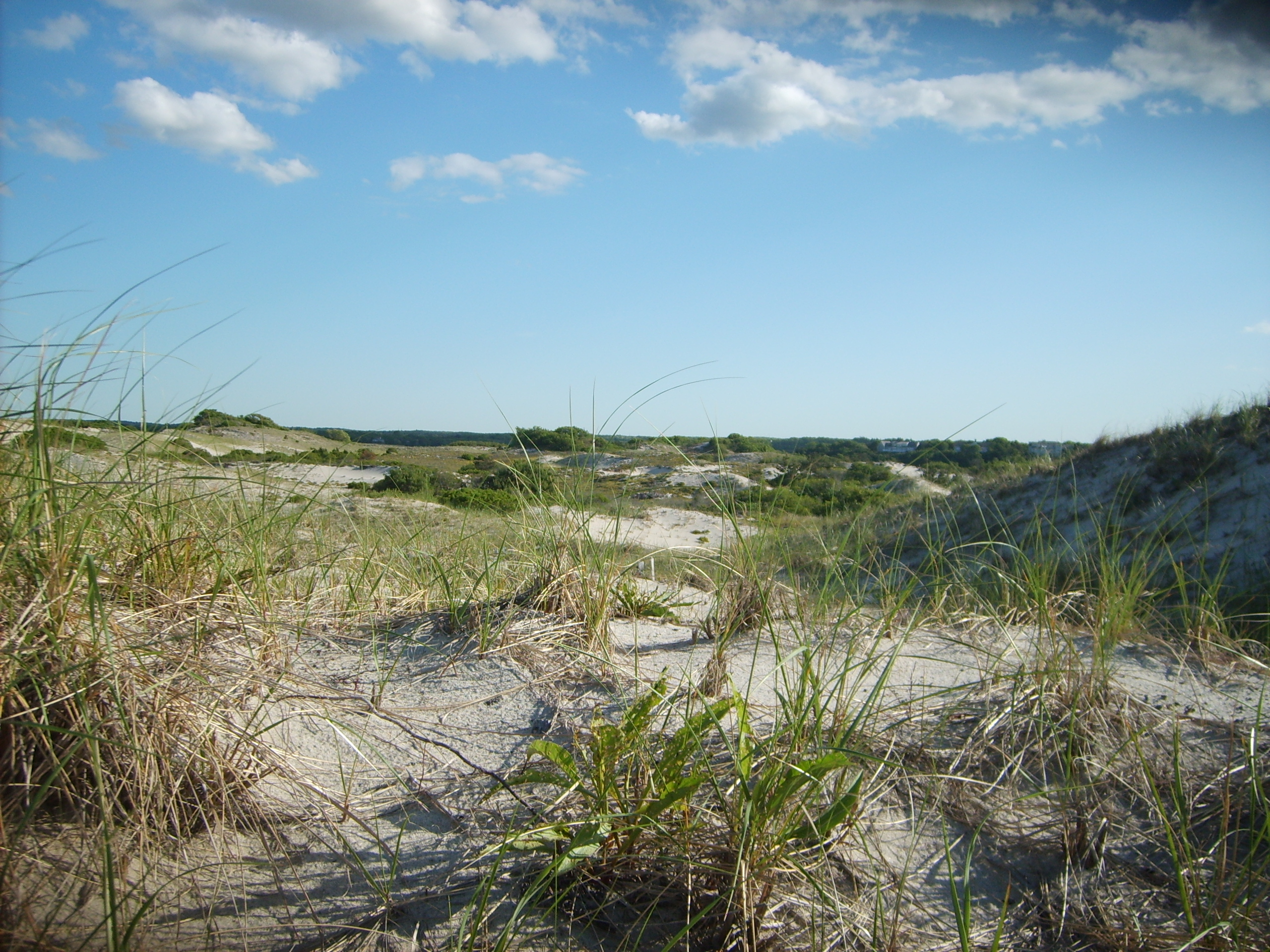 Dunes at Sandy Neck Beach, West Barnstable